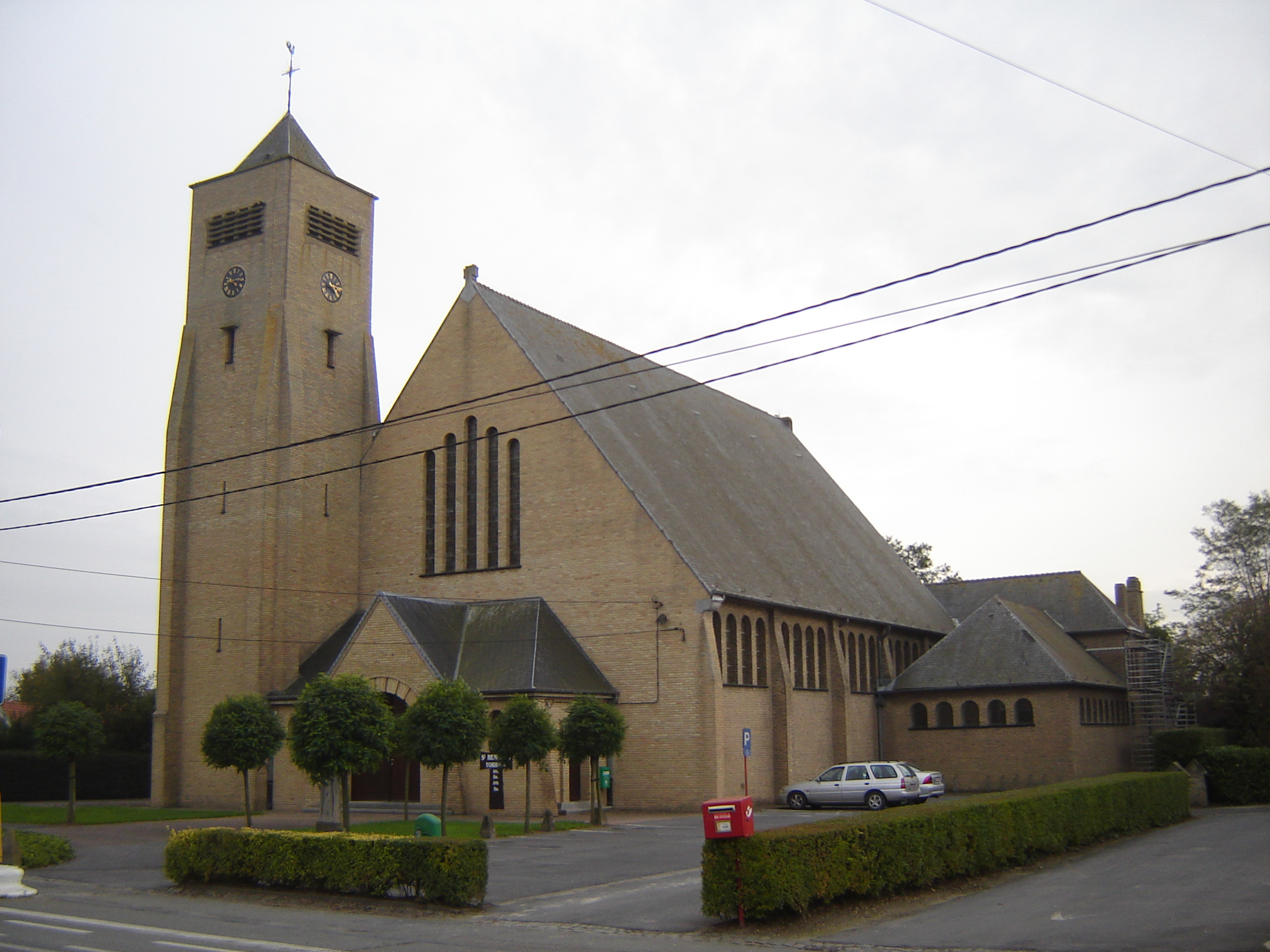 Church of Saint Henry in Sint-Henricus. Sint-Henricus, Torhout, West Flanders, Belgium